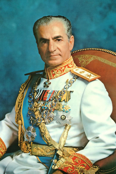 An official portrait of Mohammad Reza Shah Pahlavi, the late Shah of Iran. Mohammad Reza Shah reigned as Shahanshah of Iran from 1941 until 1979, when the Islamic Revolution overthrew the monarchy. He died in exile in 1980 in Cairo, Egypt.